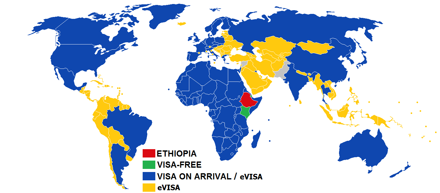 Visa policy of Ethiopia Ethiopia Visa-free Visa on arrival or eVisa eVisa